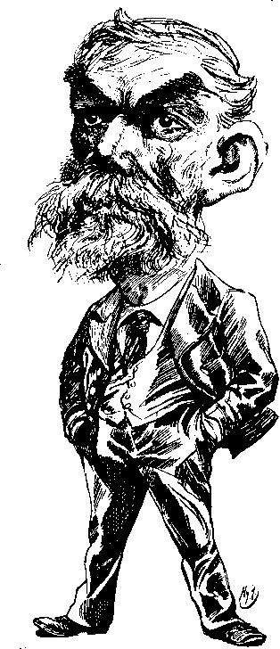 Punch magazine cartoon of John Burns.